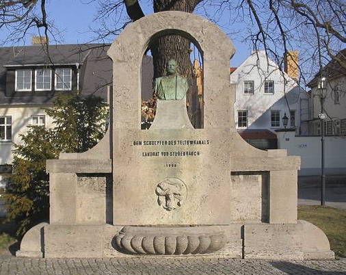 Monument, built in 1908, for "Ernst von Stubenrauch" (1853-1909), "founder" of the Teltowcanal. Teltow, Brandenburg.